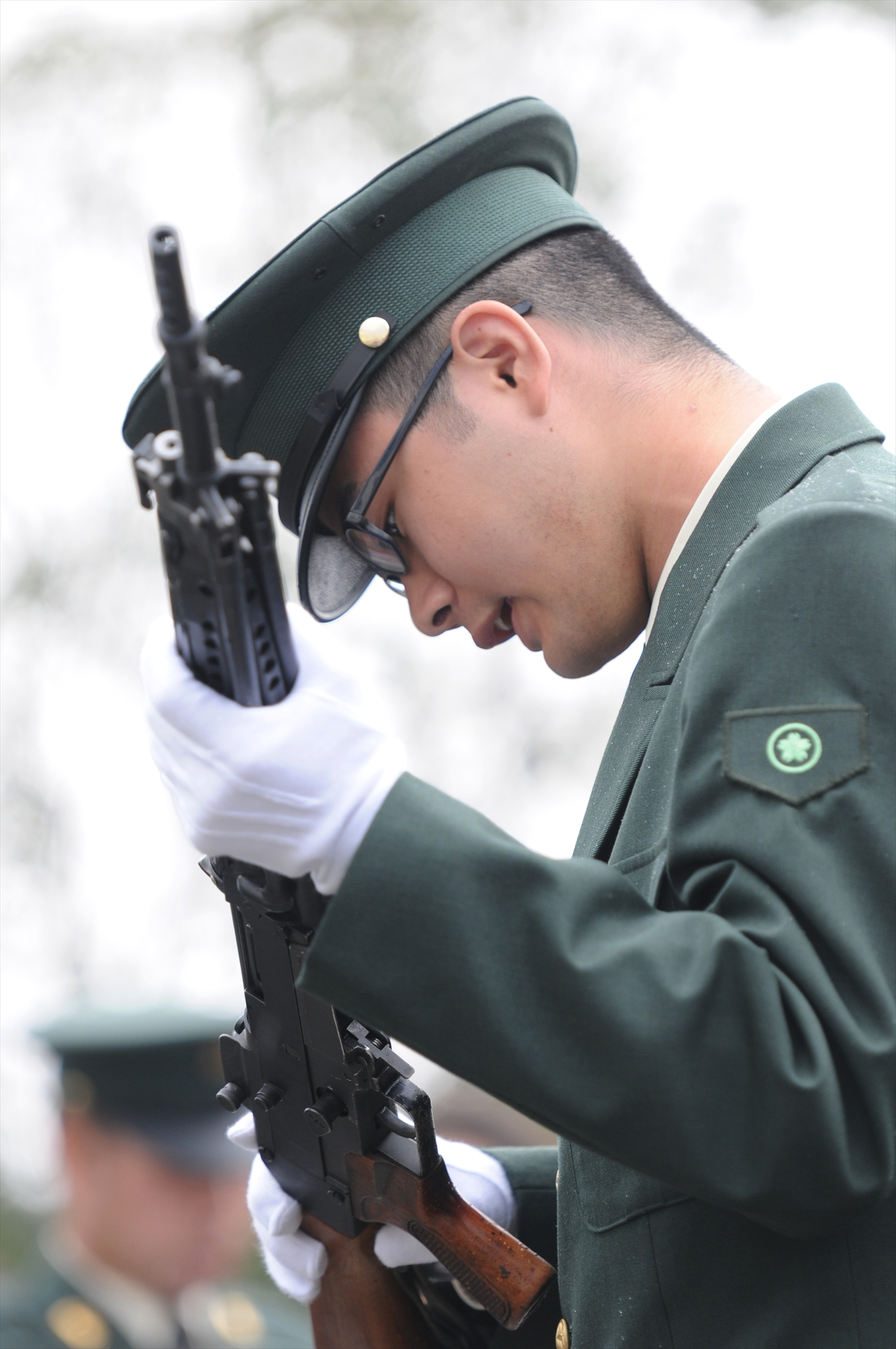 Title ６４式７．６２ｍｍ小銃 １１７教大・自衛官候補生武器授与式(24.6.11受領・東混団ＰＲ大島曹長)_R.JPG Album 装備 ６４式７．６２ｍｍ小銃（自衛官候補生武器授与式・東部方面混成団）